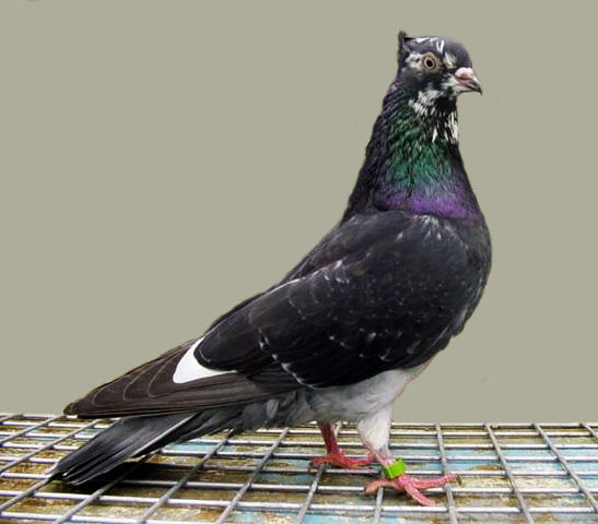 Iranian Highflier (Dark Chequer)